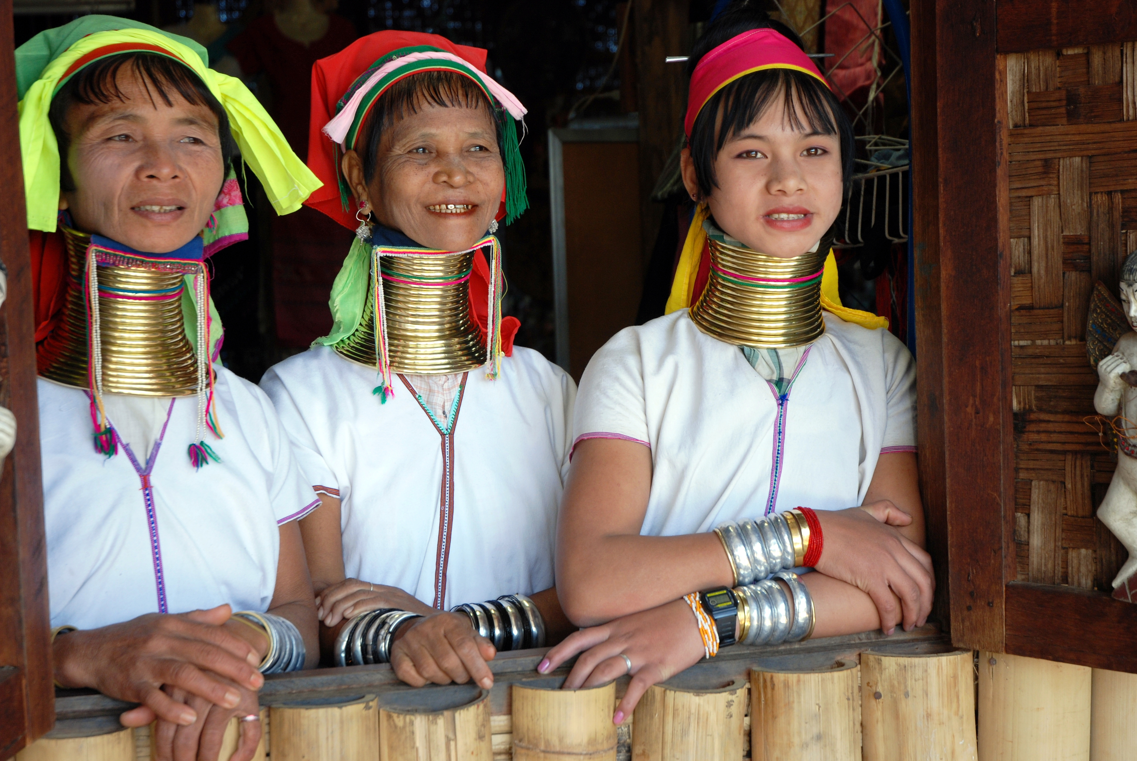 Kayan women in a village near Inle Lake, Burma